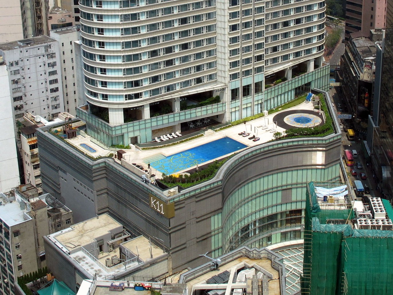 The Masterpiece Swimming Pool